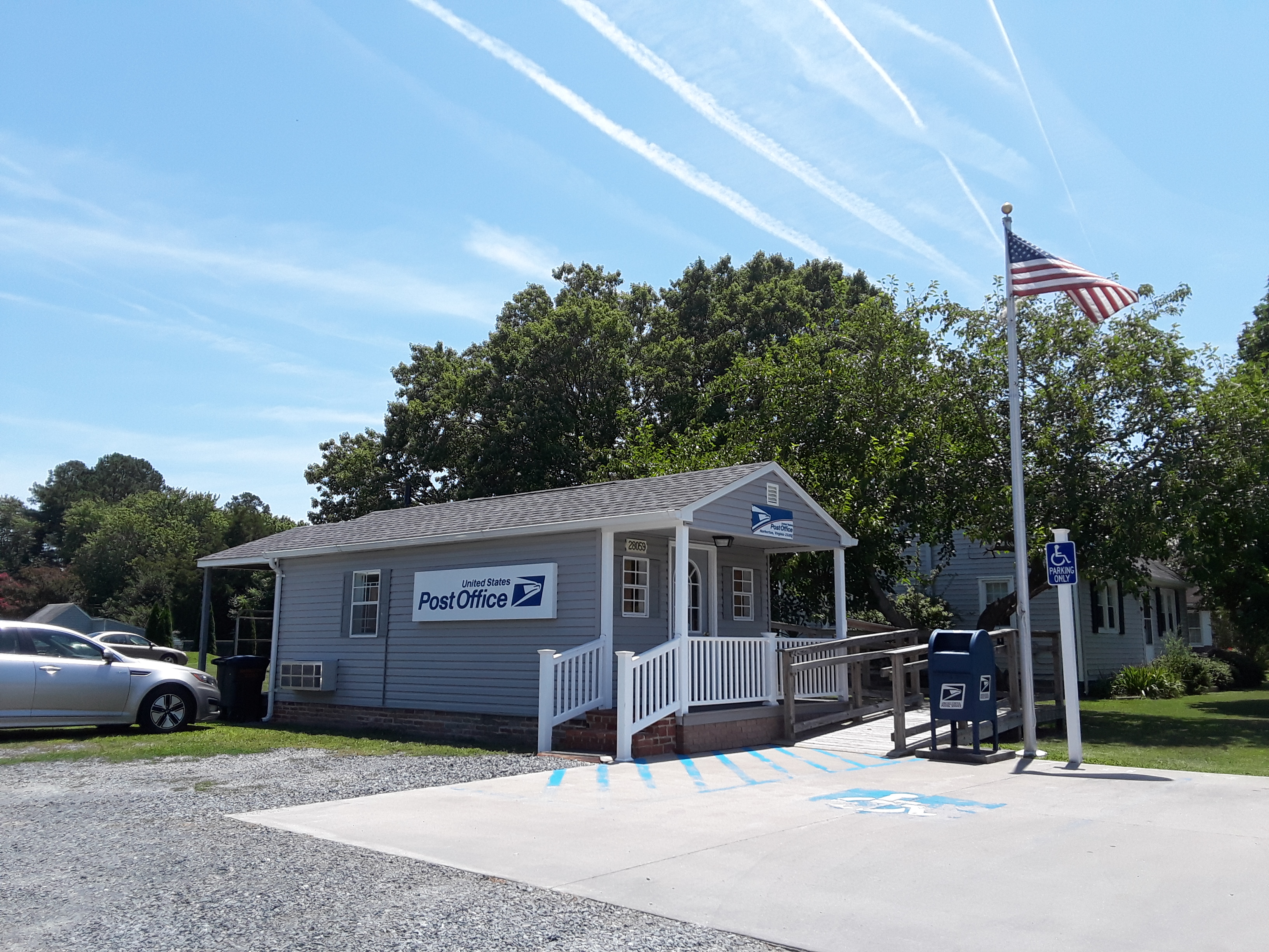 Taken on a visit to the Eastern Shore of Virginia, July 2018